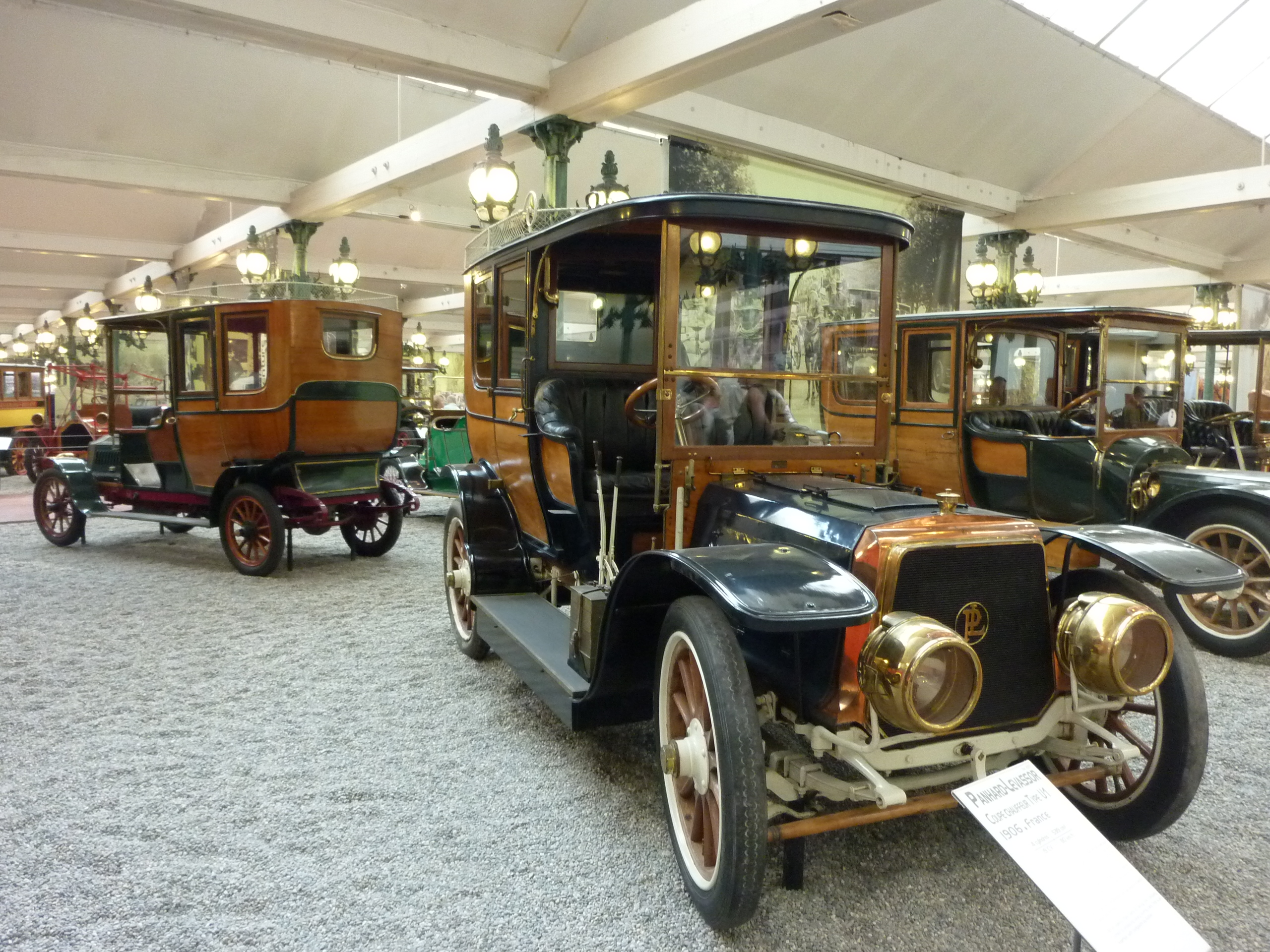 Picture of a Panhard-Levassor Type U1 of 1906 in the Musée national de l’automobile, France.